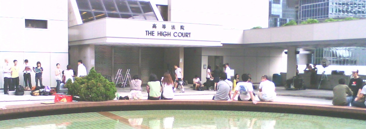 Media and public queueing for probate lawsuit of Nina Wang's wills